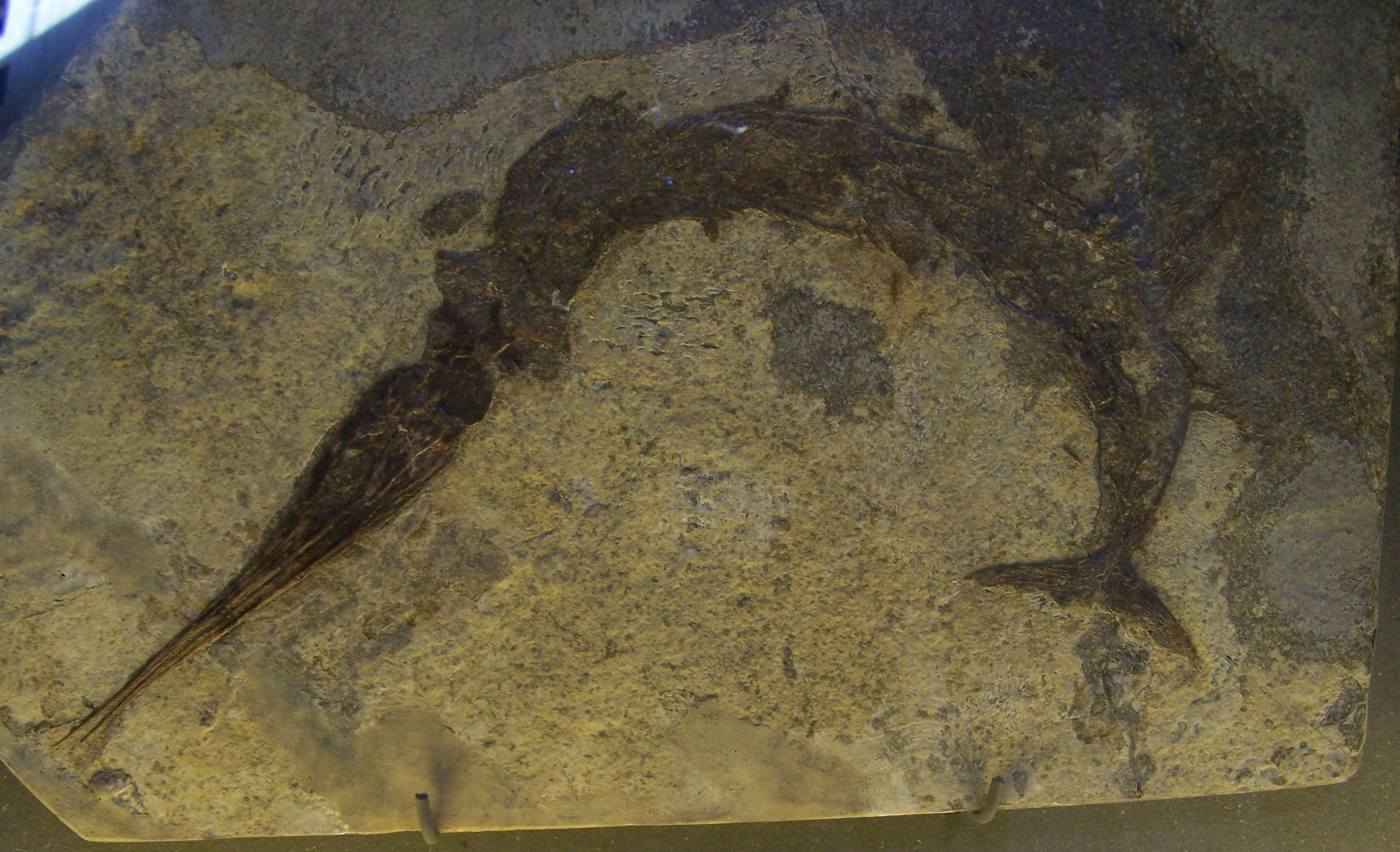 Fossil of the ray-finned fish Saurichthys curionii, from the Ladinian (Middle Triassic) Cassina beds (Meride Limestone Formation) of the Monte San Giorgio, Ticino, Switzerland. Collection of the museum of natural history (Museo cantonale di storia naturale, [1]) of Lugano. Stone slab is about 40 cm in width.